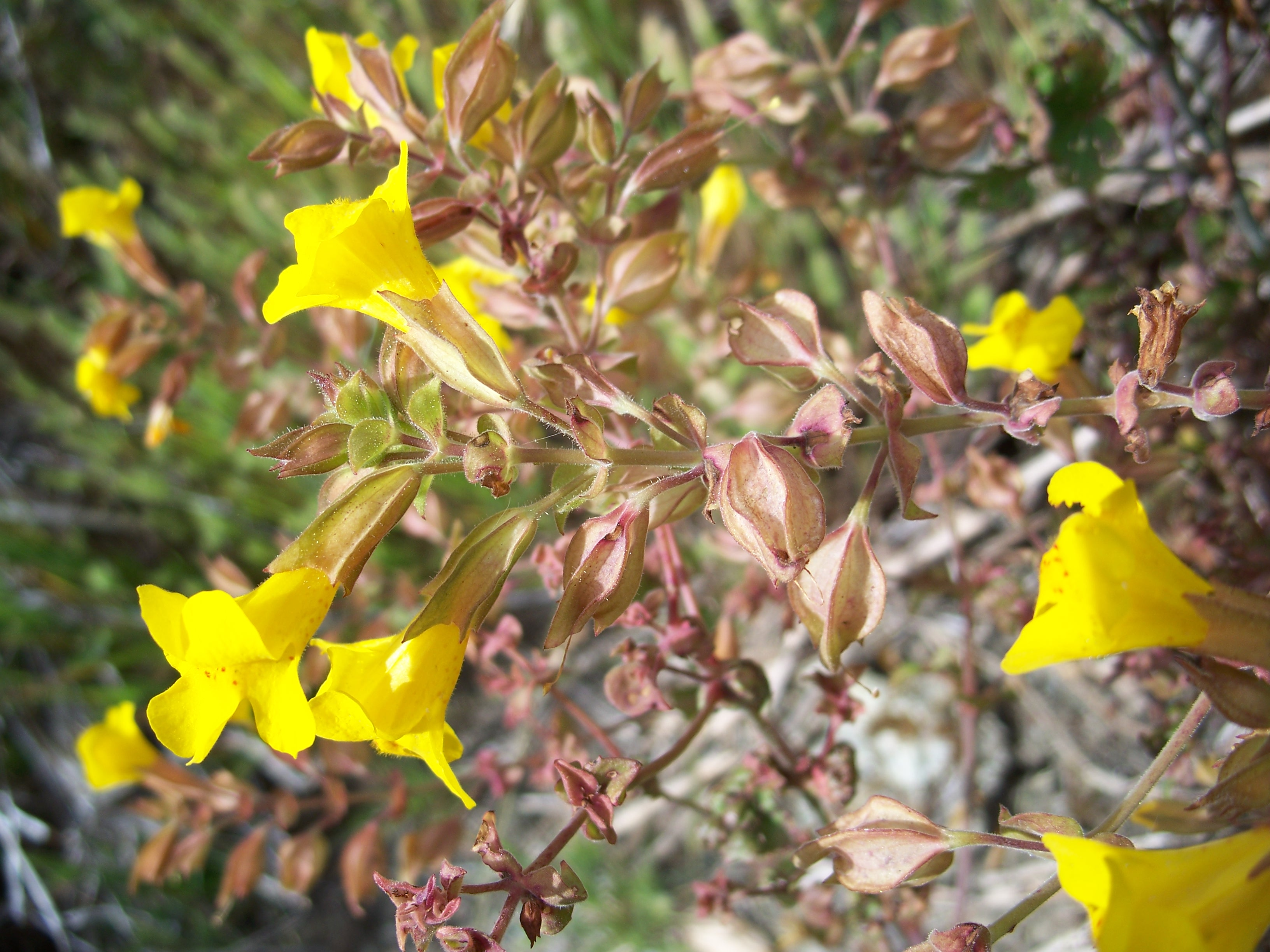 Mimulus guttatus — Seep monkeyflower, Common Yellow Monkeyflower In San Jose, California. Identified by Aroche.